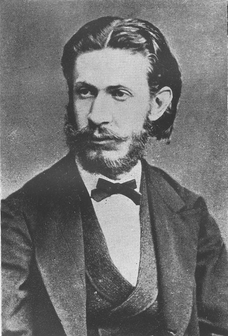 Otakar Hostinský (1847-1910), Czech musicologist. A photograph from the 1870s.